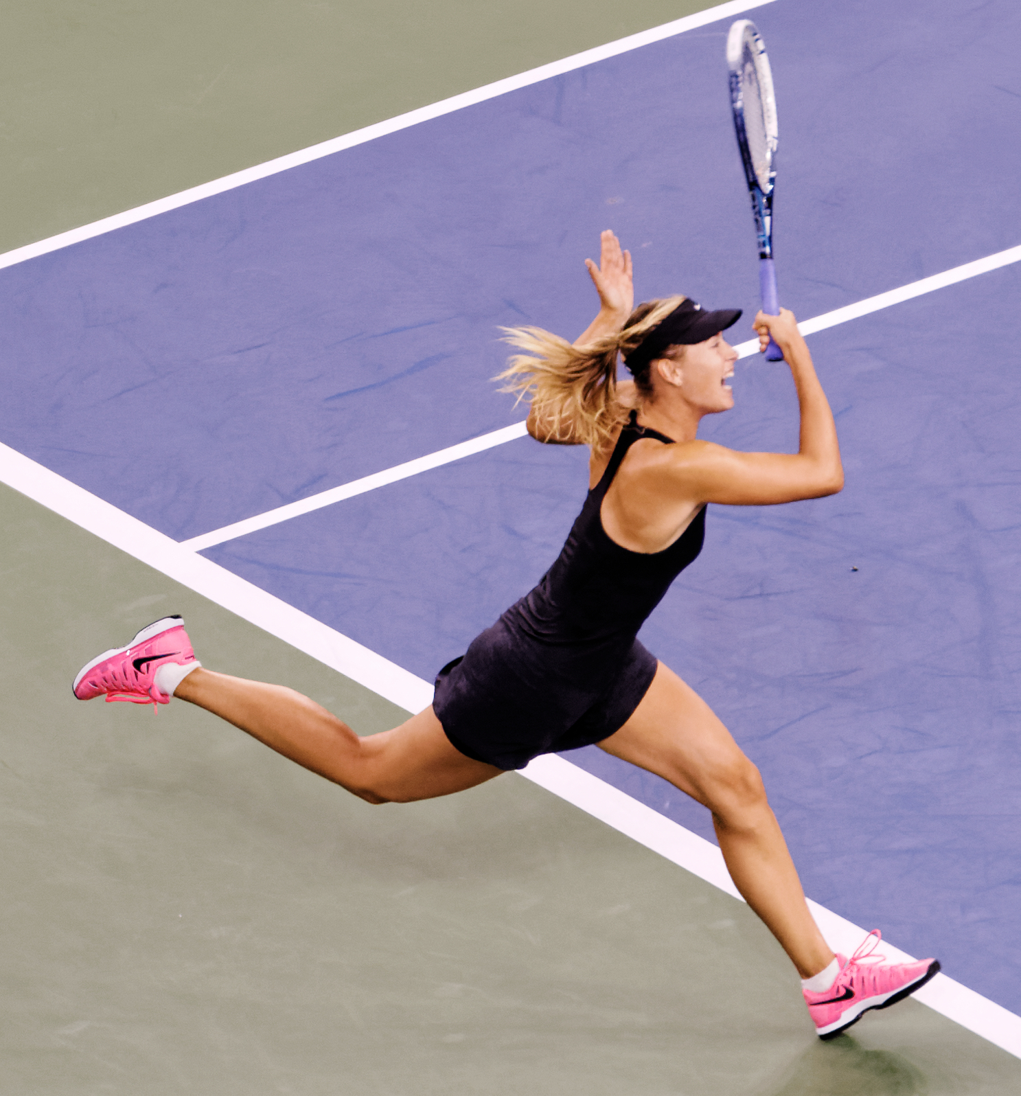 Sharapova agli US Open 2014